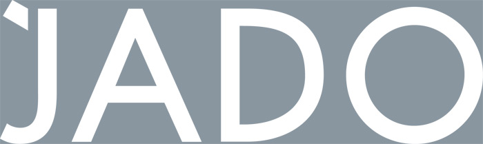 Logo of JADO